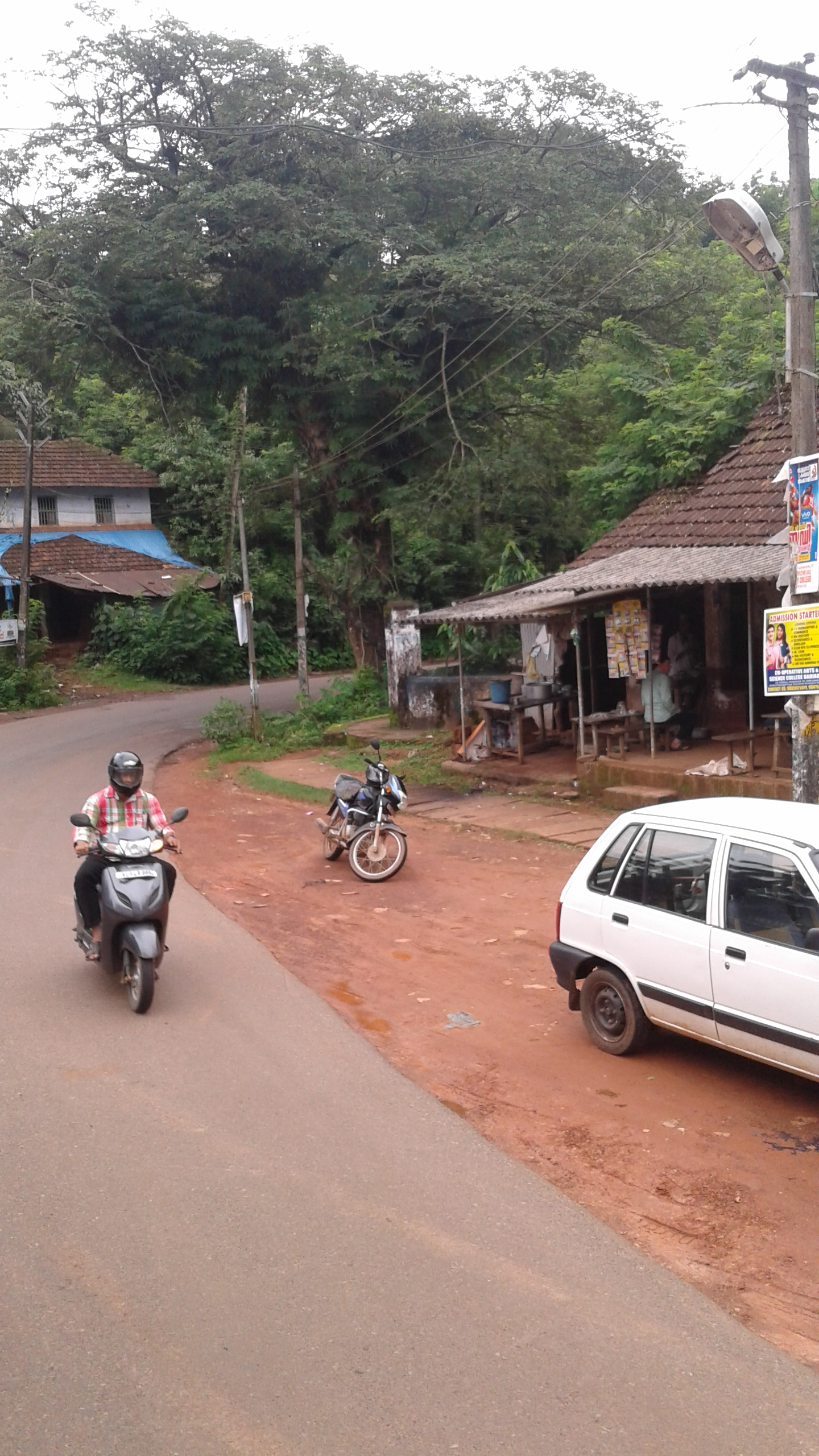 Kasaragod-Sullia Road, Kerala, India.